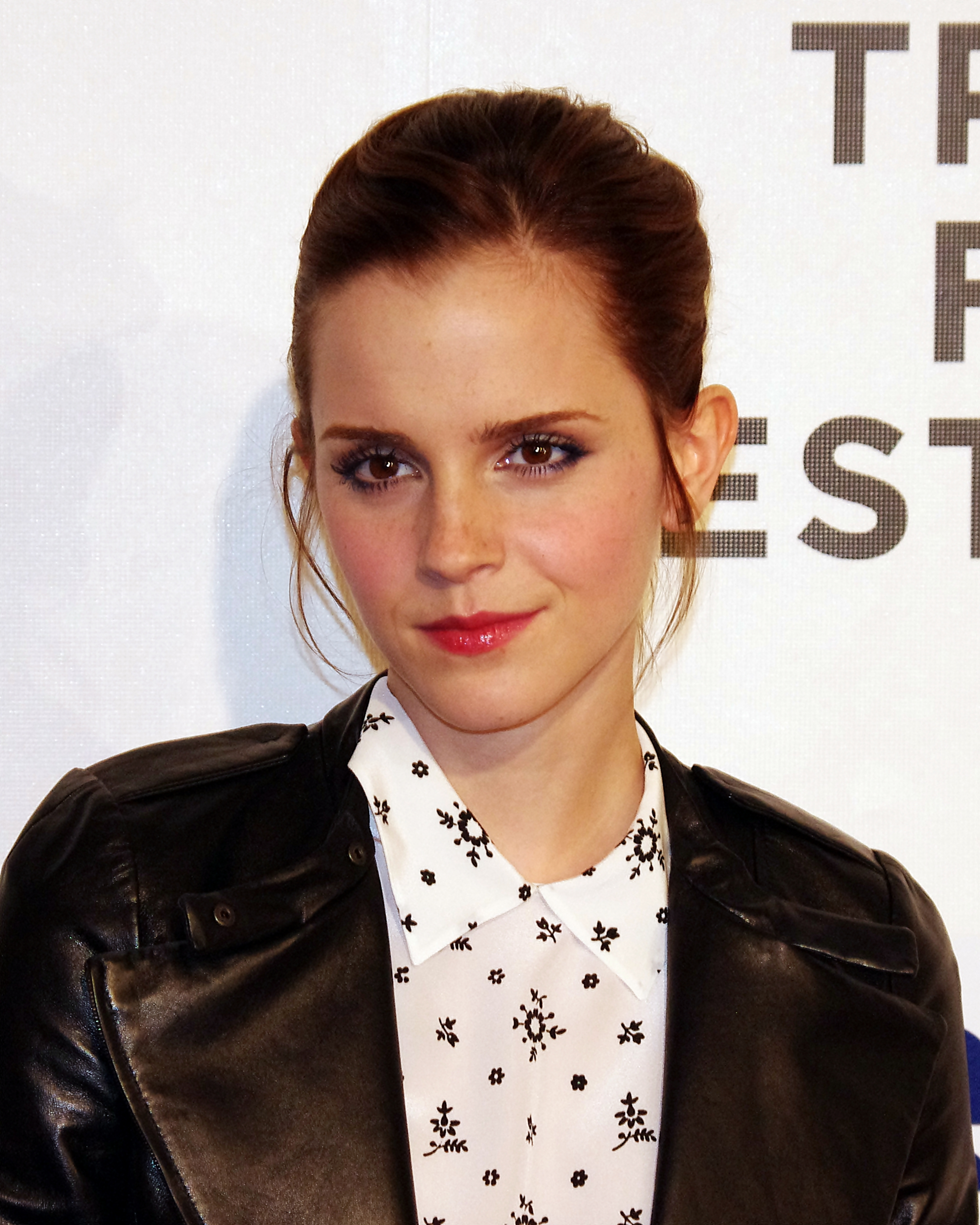 Emma Watson at the 2012 Tribeca Film Festival premiere of Struck by Lightning.